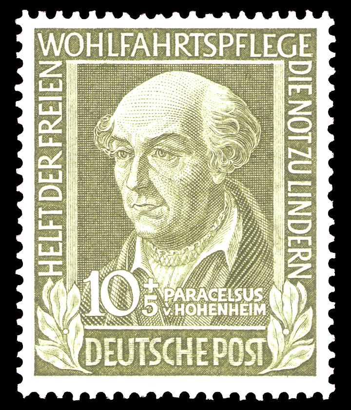 Social welfare stamp series 1949, Paracelsus (1493-1541) Ausgabepreis: 10+5 Pfennig First Day of Issue / Erstausgabetag: 14. Dezember 1949 Michel-Katalog-Nr: 118